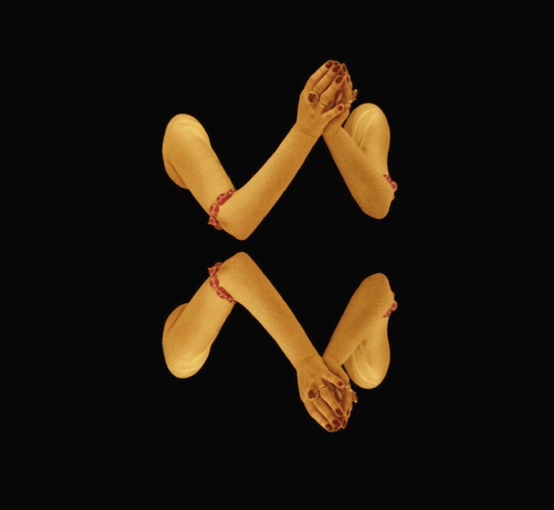 Myth of Womanhood: Crossarms, digital photo on archival paper, 2005